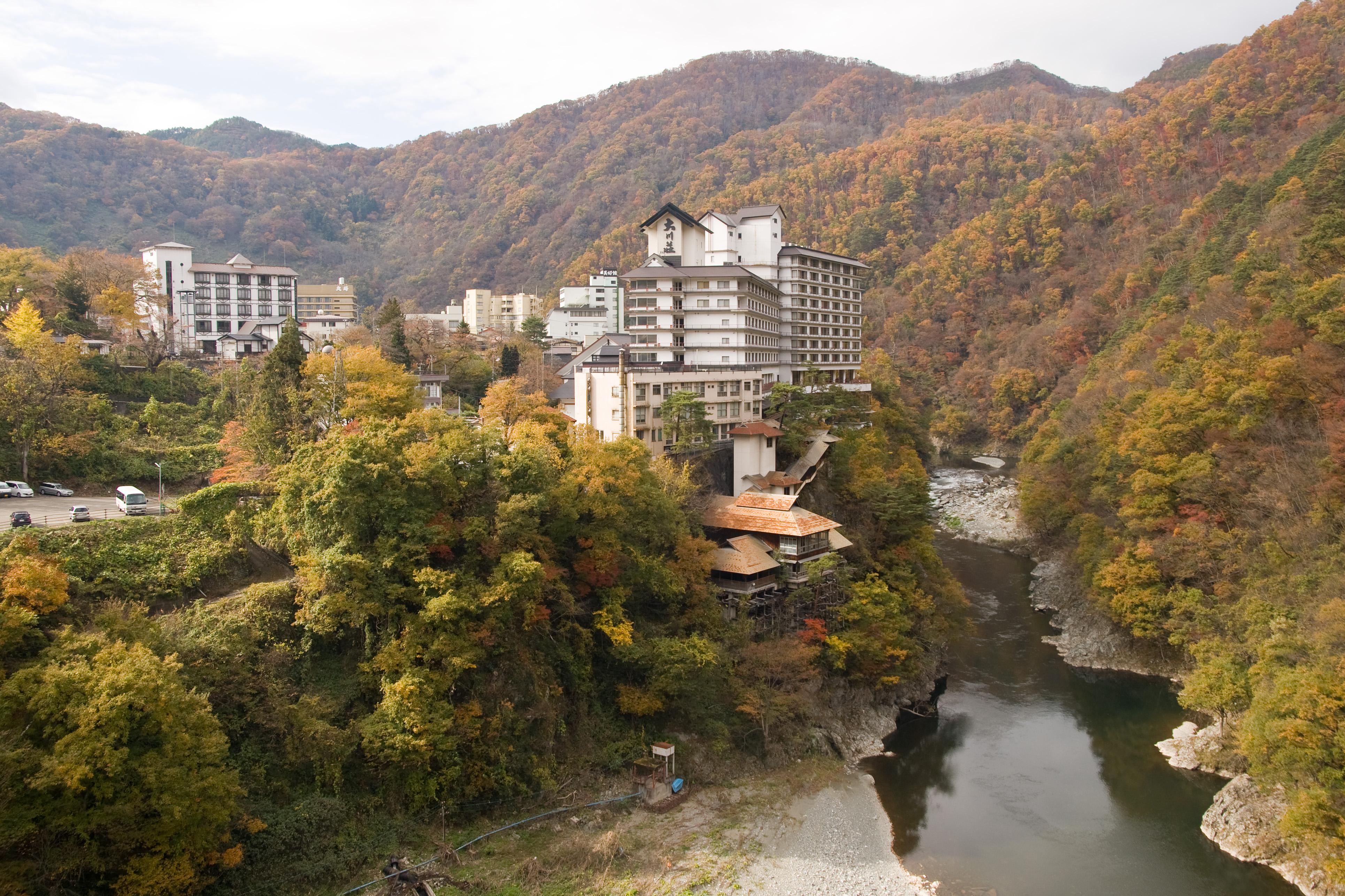 Ashinomaki Onsen, Aizu-wakamatsu City, Fukushima, Japan.